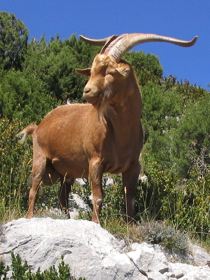 Capra aegagrus hircus, male (Domestic_Goat; Hausziege, Rasse: Rove-Ziege), picture taken in the mountains above the Gorges du Verdon, Provence, South-France